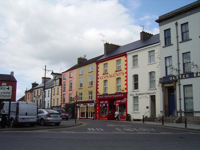 Clones Town centre.